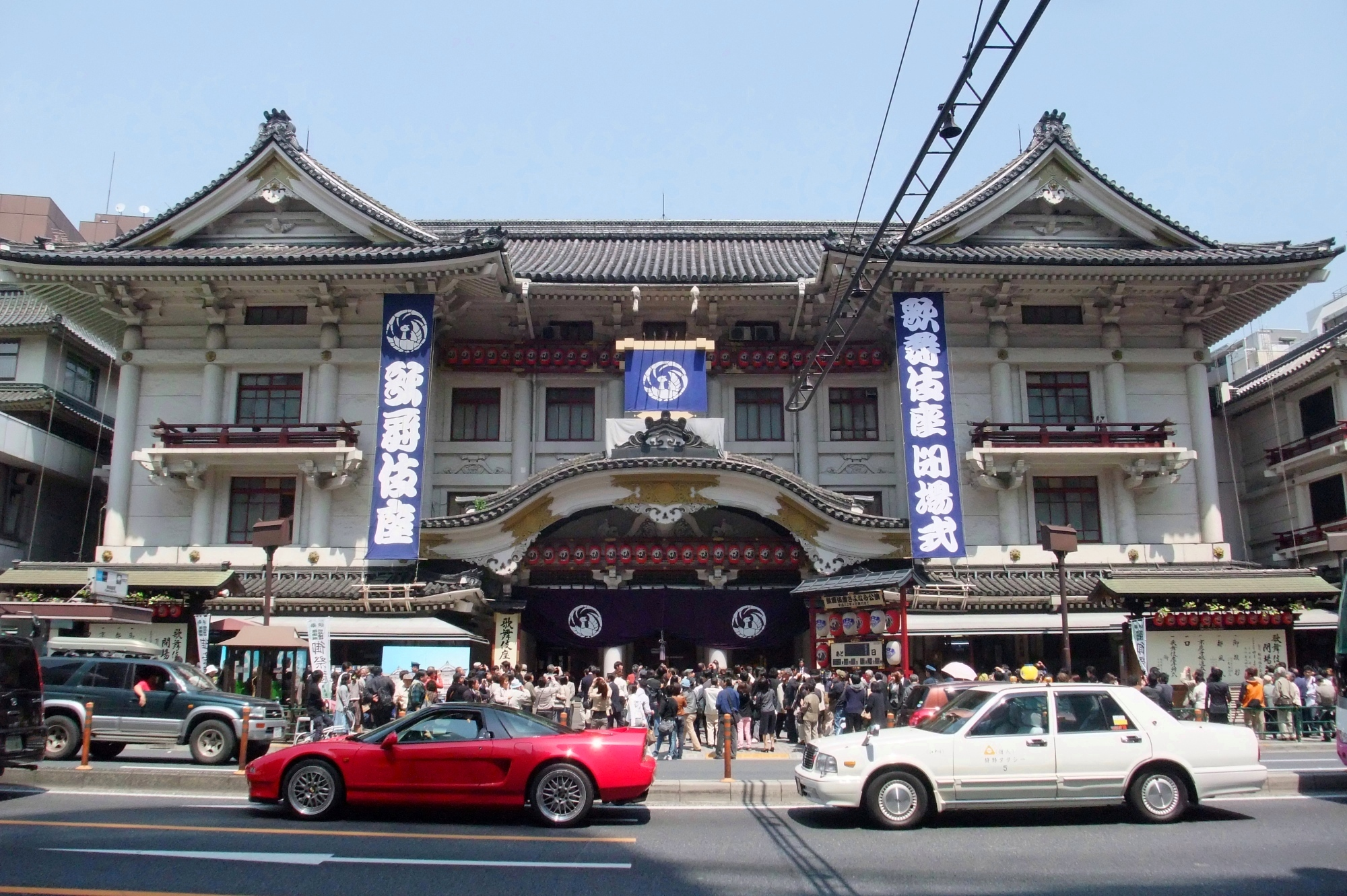 Kabuki-za theater, Tokyo